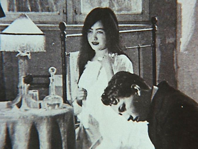 The Glow of Live